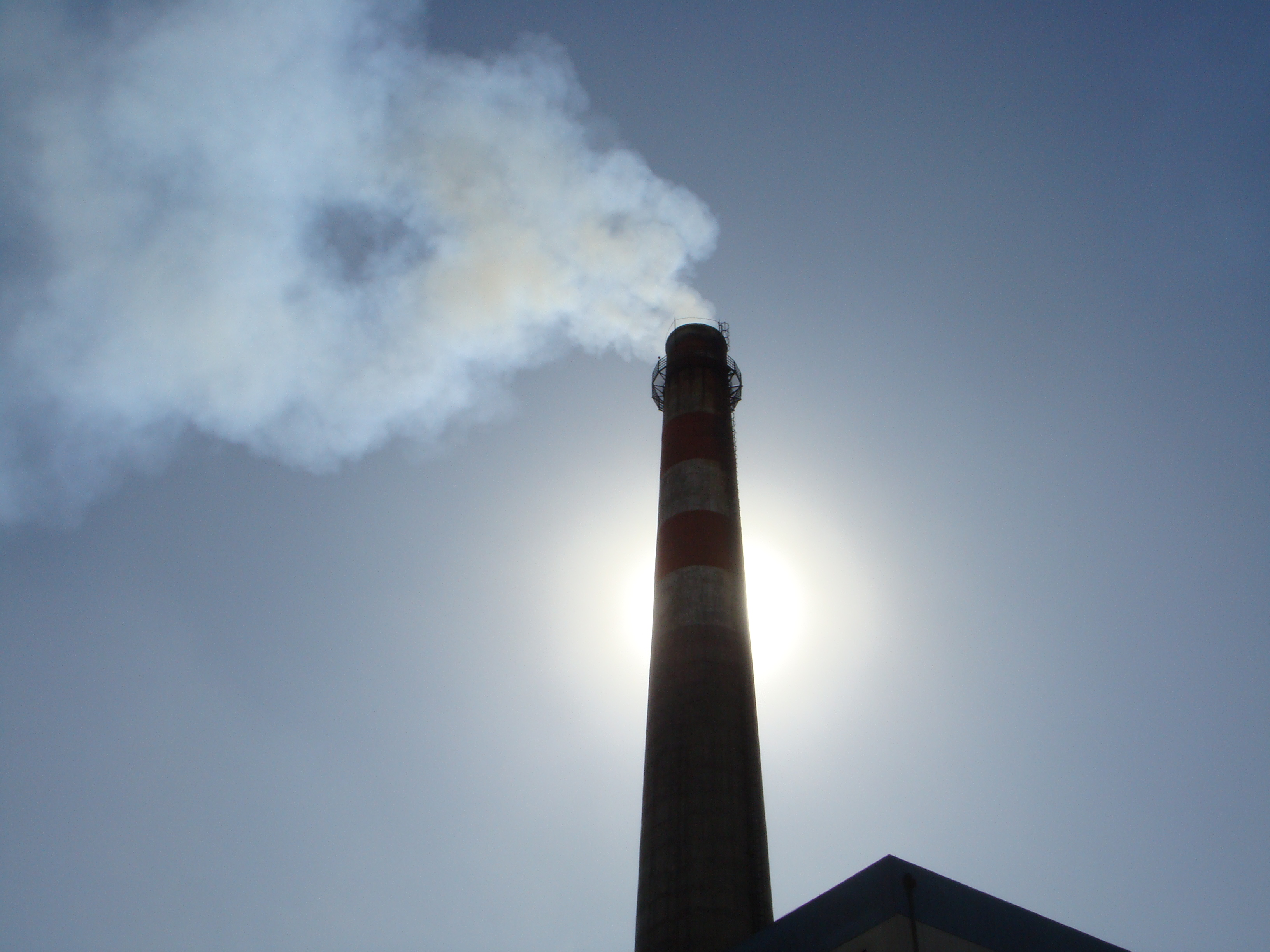 The air pollution of Wuhai glass factory